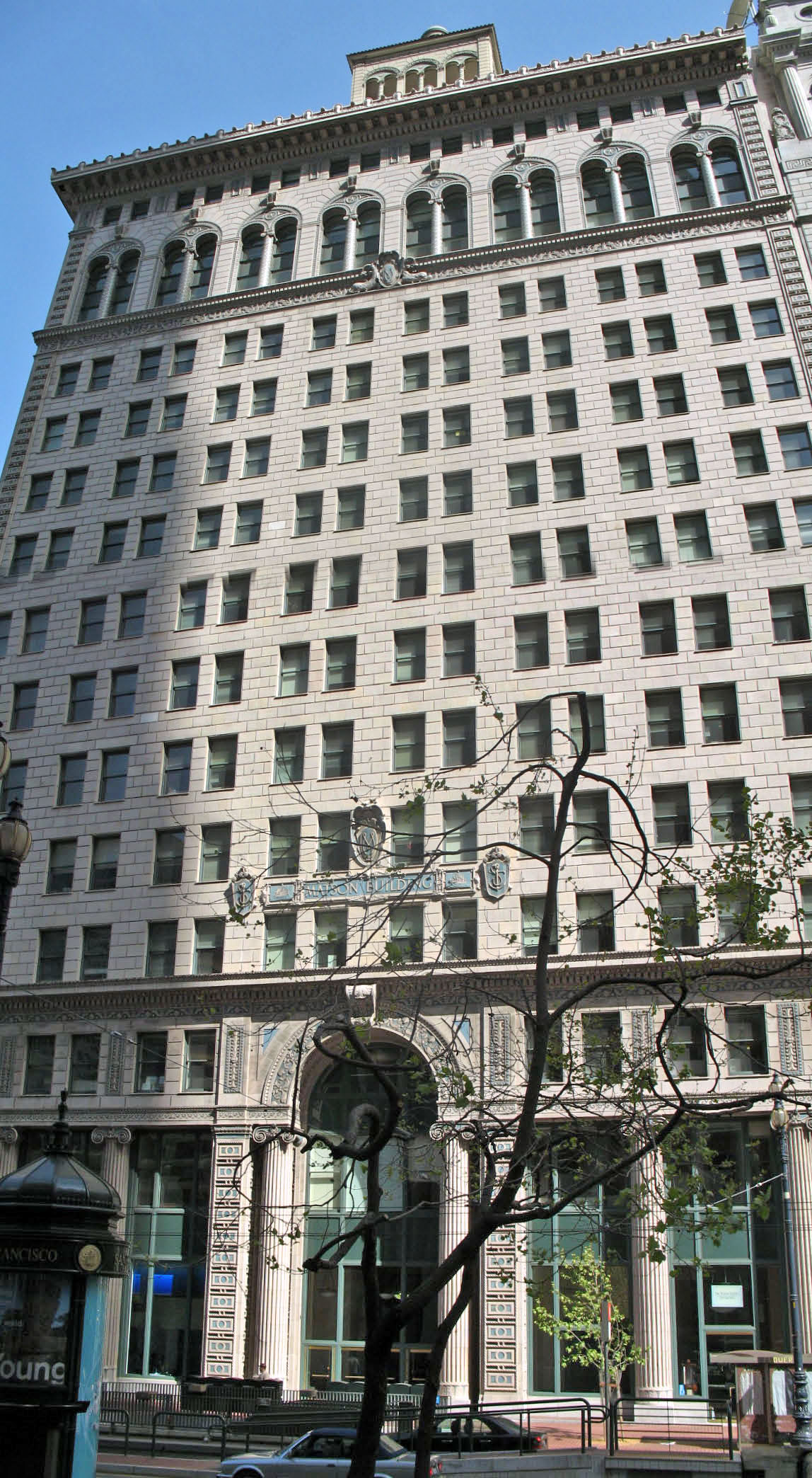 National Register of Historic Places in San Francisco, California. Matson Building and Annex, 215 Market St, San Francisco, California. Photographed 2008-05-11 by Mike Hofmann from the north side of Market St. between Davis and Drumm Sts.